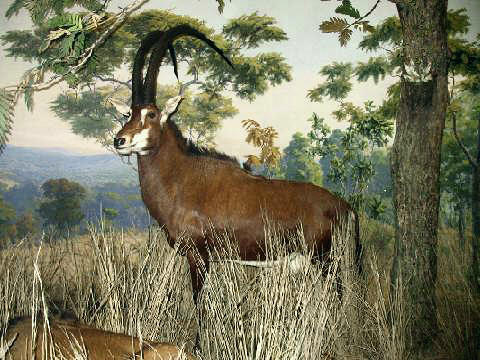 Description: Giant Sable Antelope - Source: own work - Location: American Museum of Natural History, New York - Author: self, User:Stavenn